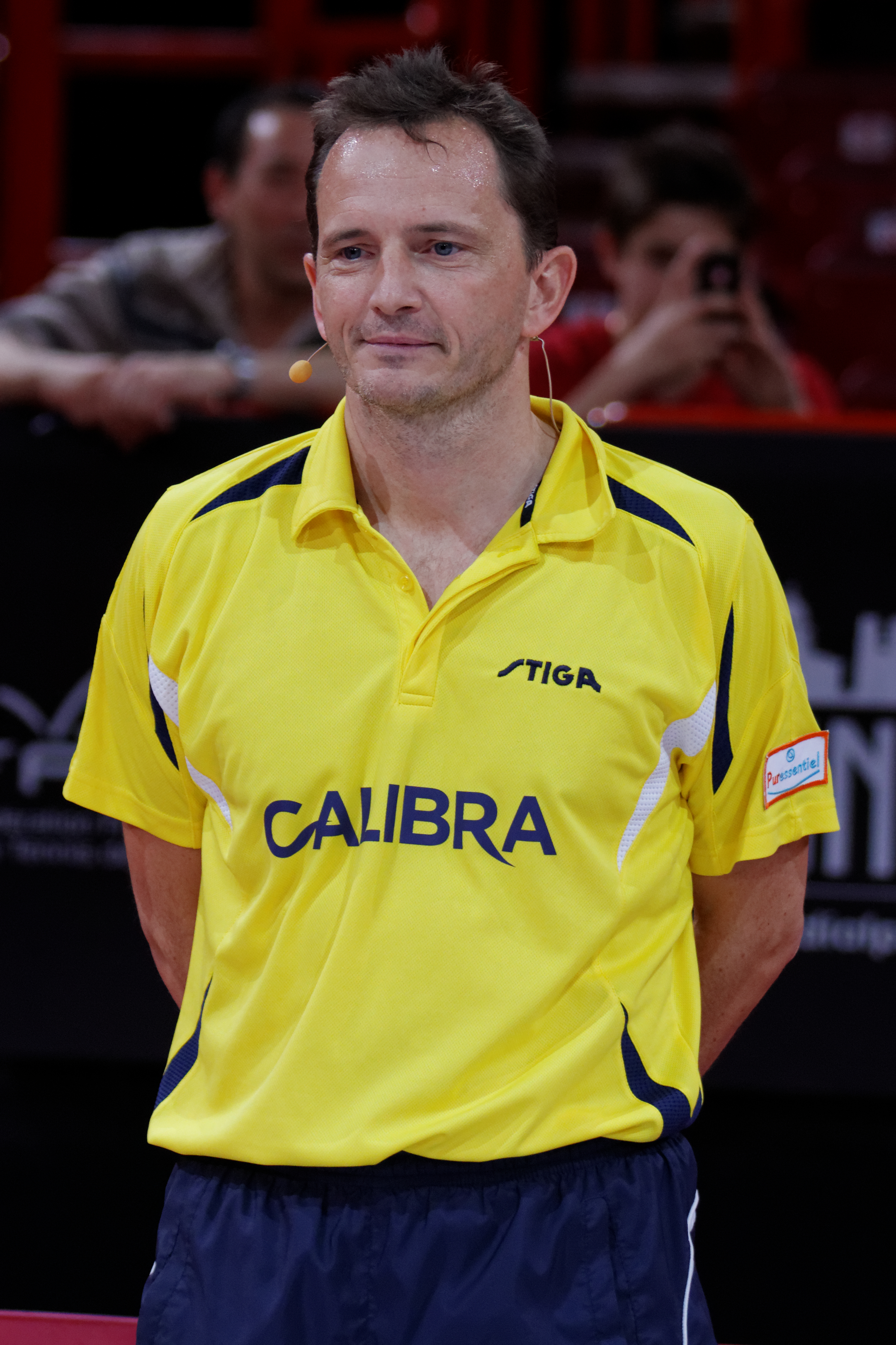 2013 World Table Tennis Championships, Paris. Jean-Michel Saive vs Jean-Philippe Gatien exhibition match.